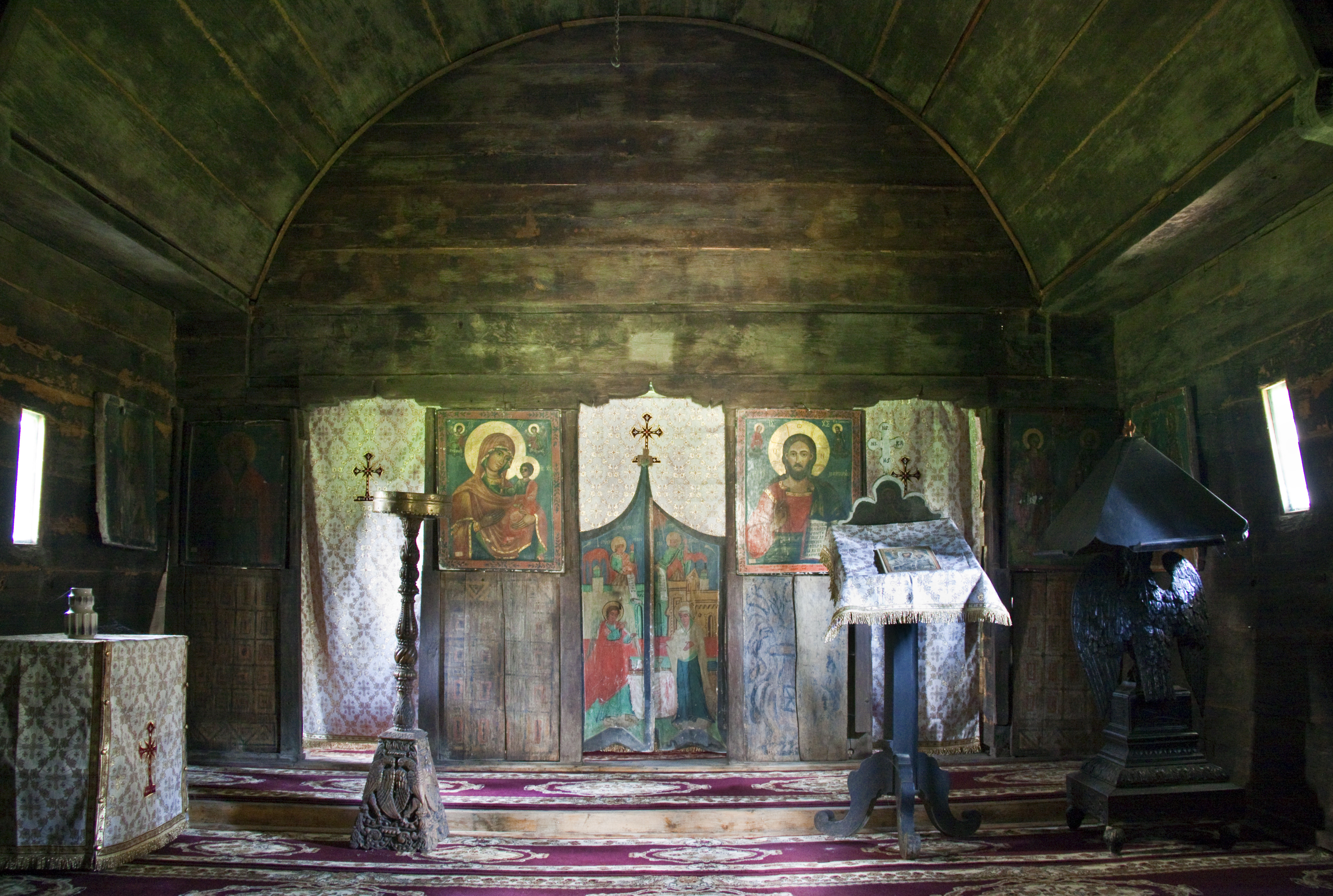 Drăganu-Olteni, Argeş county, Romania: wooden church transferred to Curtea de Argeş monastery, icon screen.